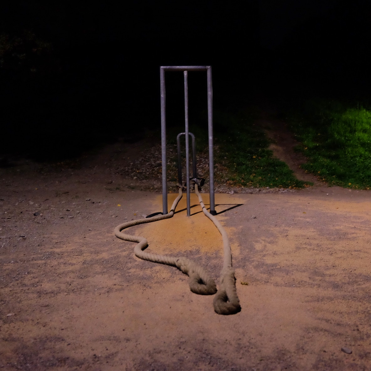 Battling rope (or battle rope) at the Gamla vattentornets outdoor gym in Pildammsparken, Malmö.